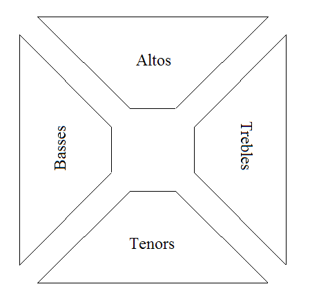 Diagram showing the traditional hollow-square seating arrangement for Sacred Harp singing.